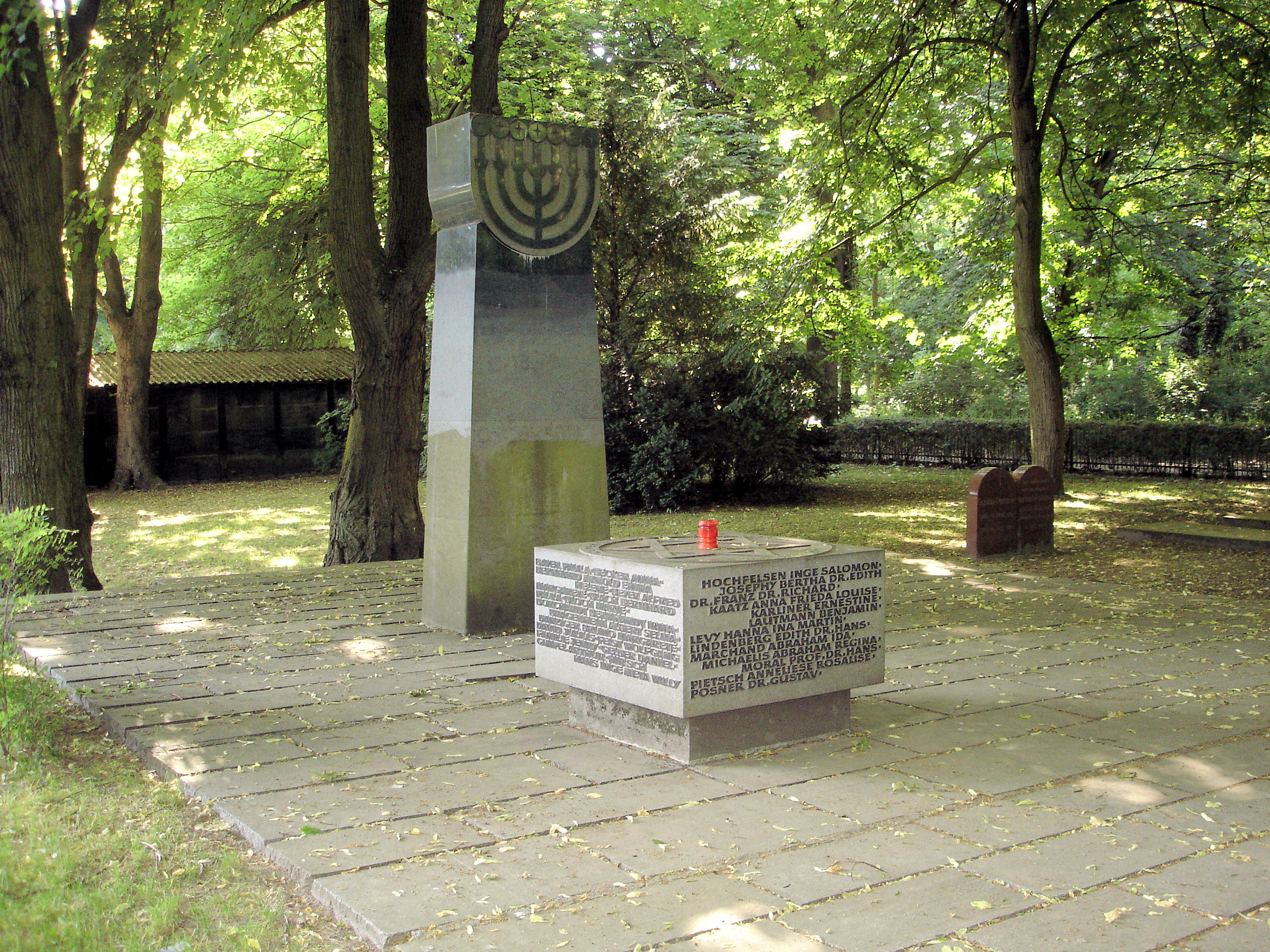 Memorial for the Jewish victims of National Socialism in Rostock